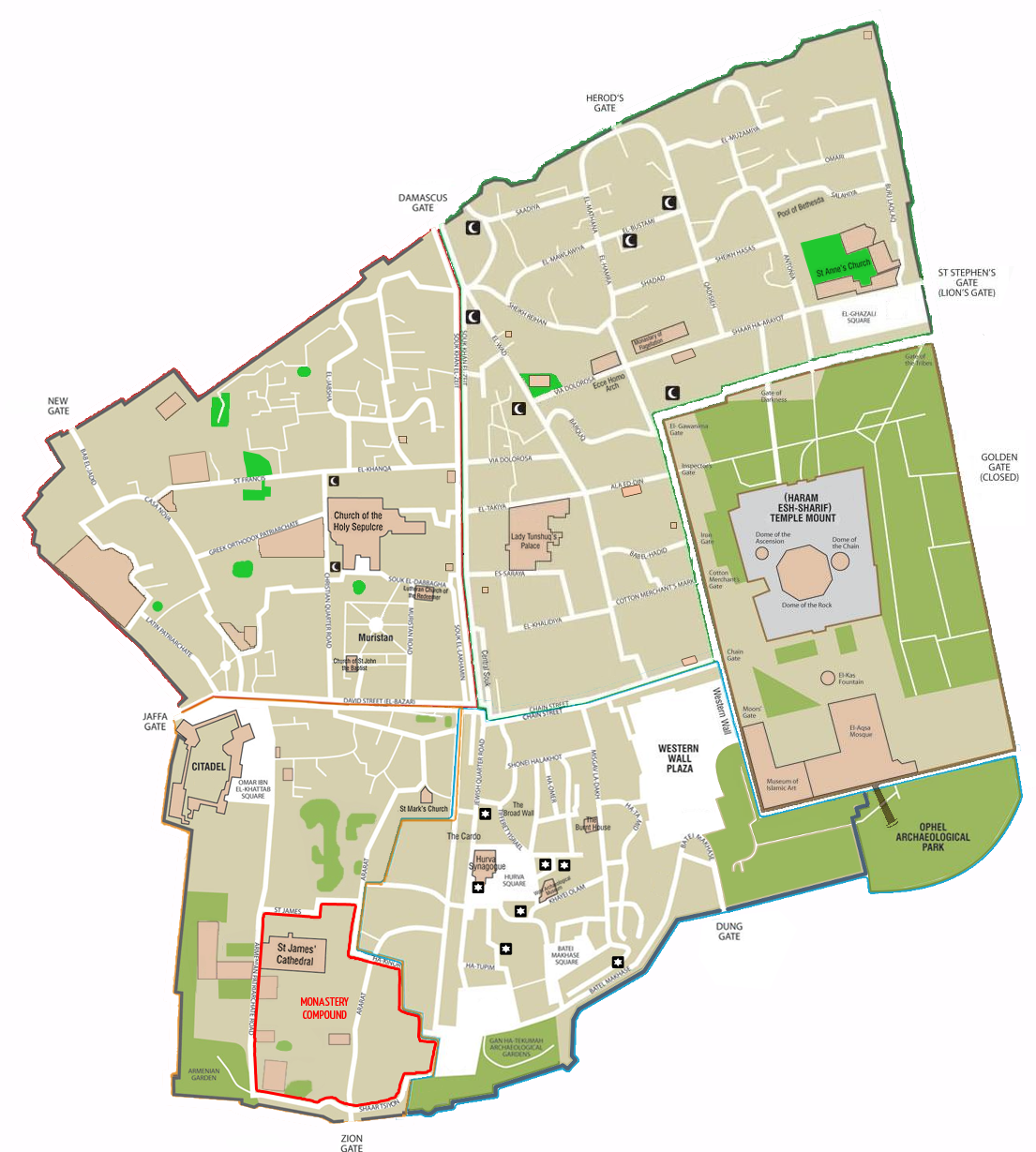 Map of Jerusalem - the old city. The quarters: SE: , NE: , NW: , SW: , E